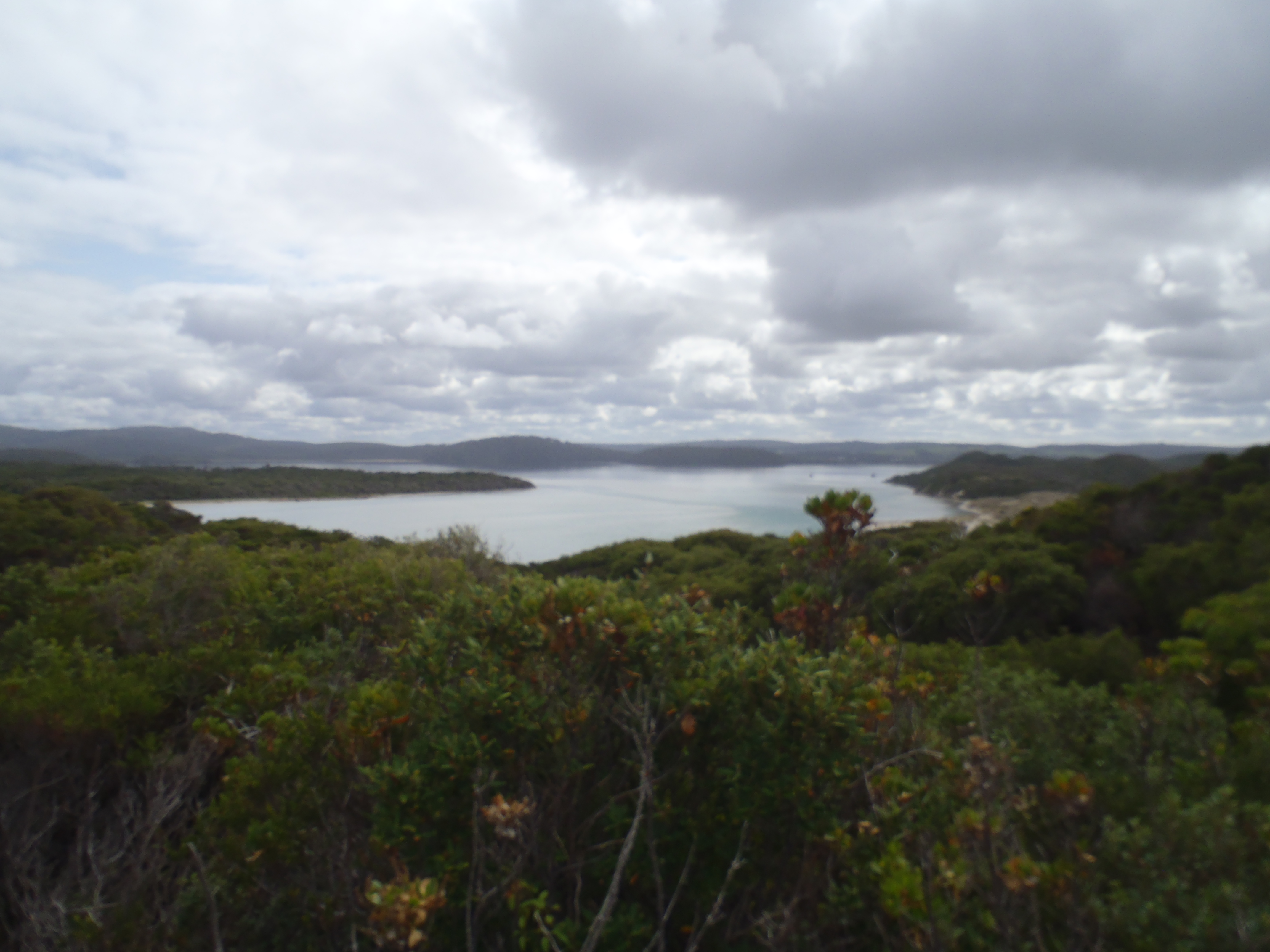 Nornalup Inlet taken fron dunes between the inlet and the Southern Ocean